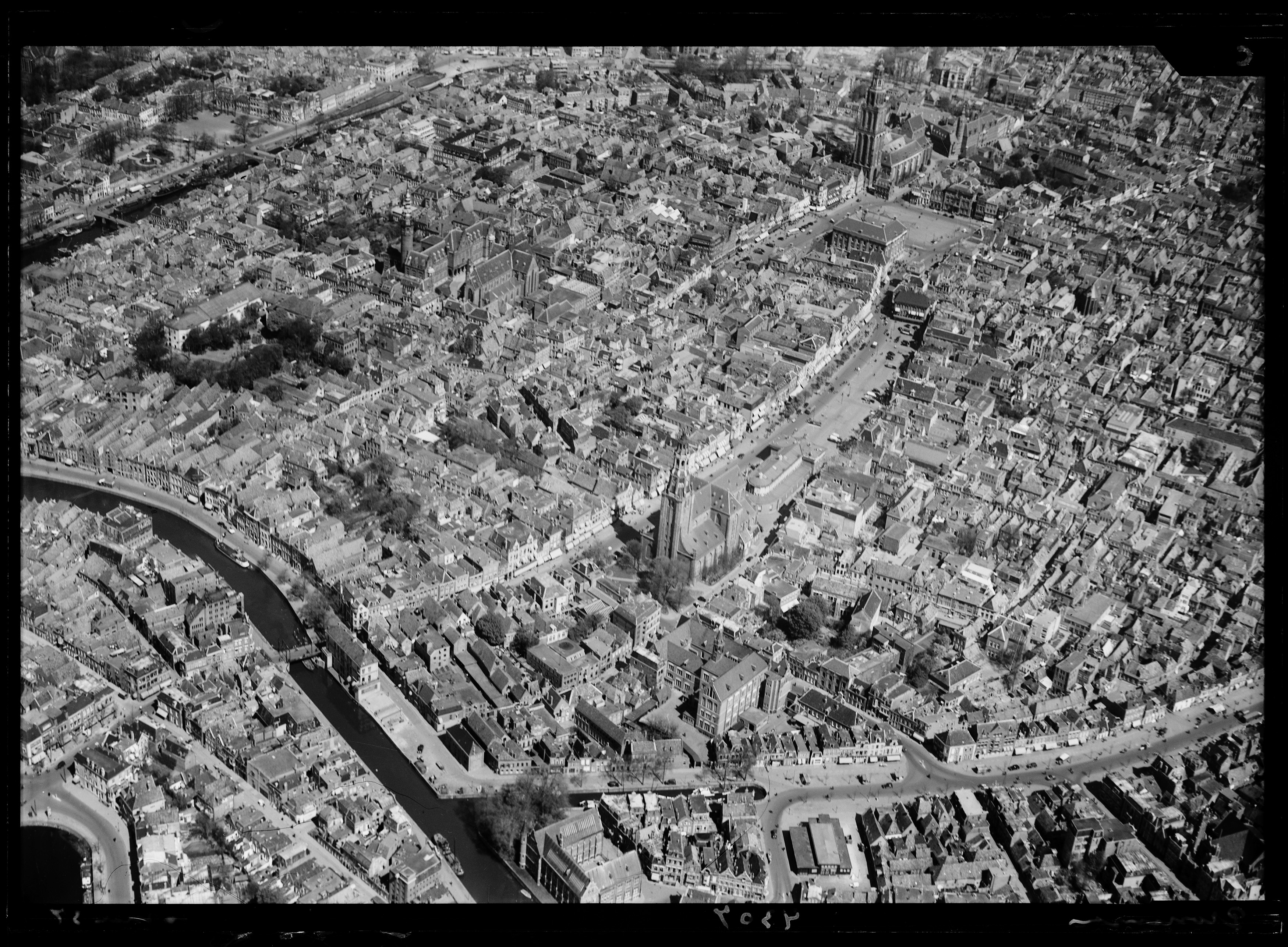 Aerial photograph of Groningen, The Netherlands